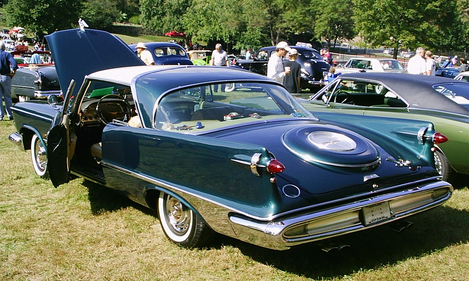 1959 Imperial 2-door hardtop by Chrysler. View of fake spare tire bulge in trunklid. Picture taken at the annual City of Rockville (Maryland) car show.